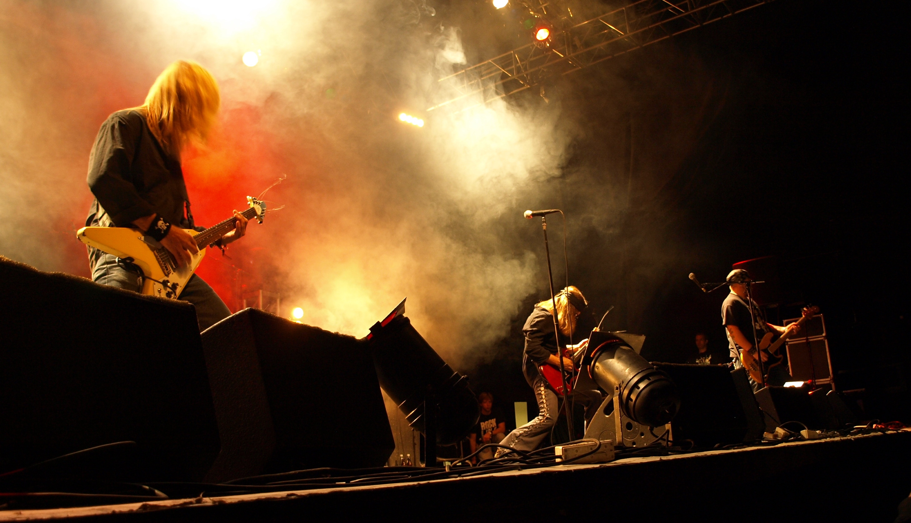 American doom metal band Trouble live at Jalometalli 2008 in Oulu.